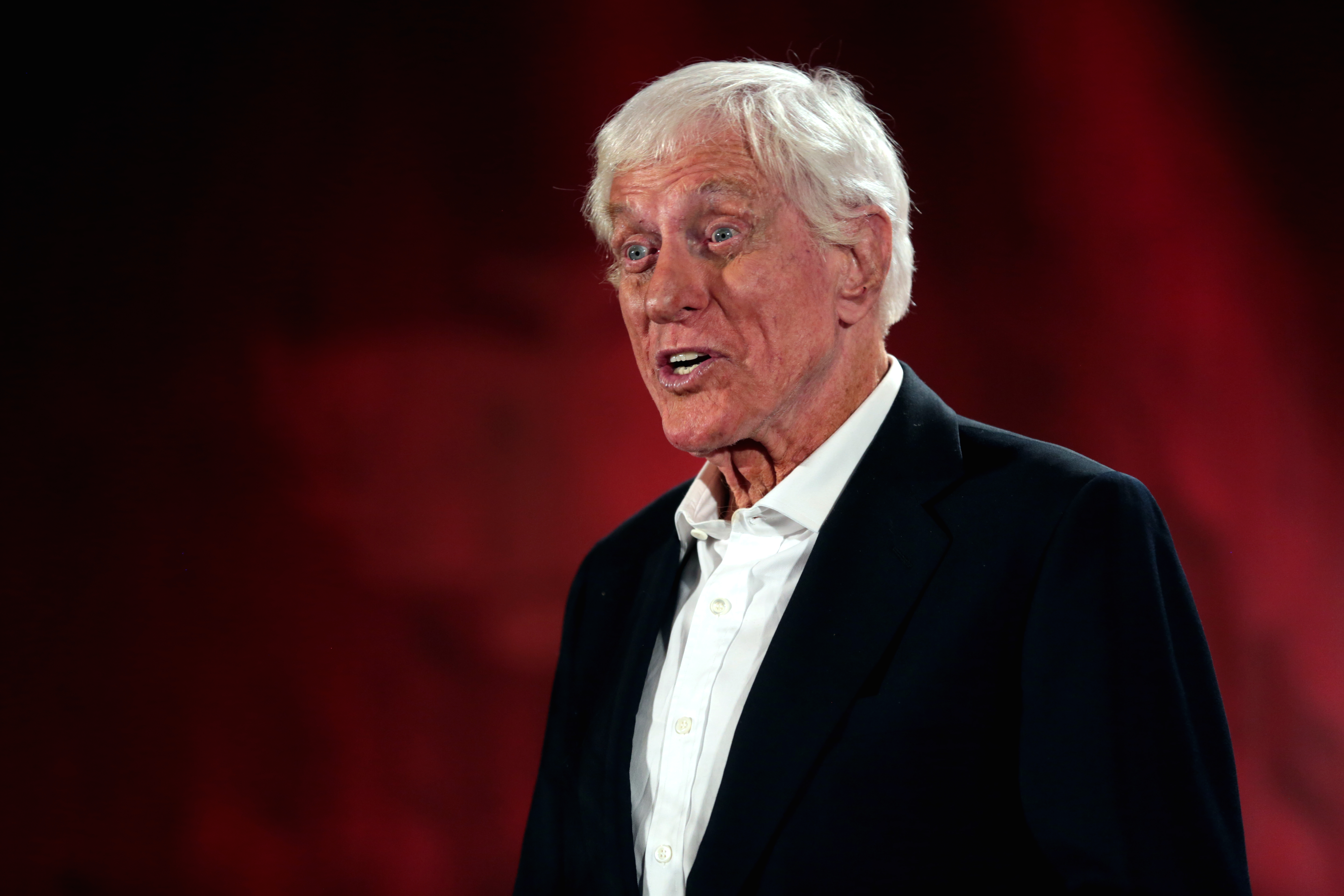 Dick Van Dyke speaking at the 2017 Phoenix Comicon at the Phoenix Convention Center in Phoenix, Arizona.